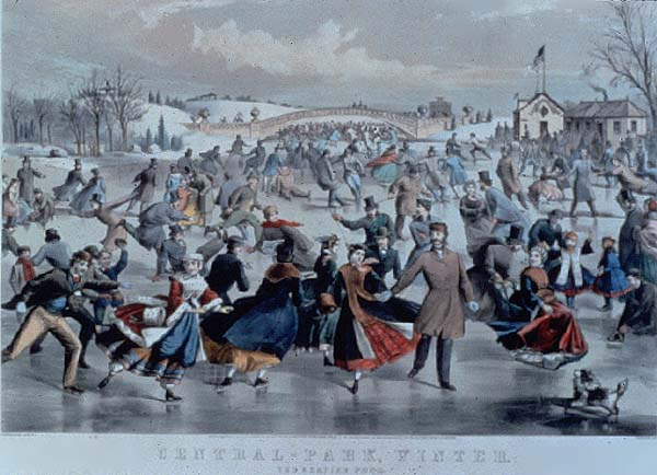 Charles R. Parsons, Central-Park, Winter: The Skating Pond, published by Currier and Ives, 1862, Museum of the City of New York, Harry T. Peters Collection